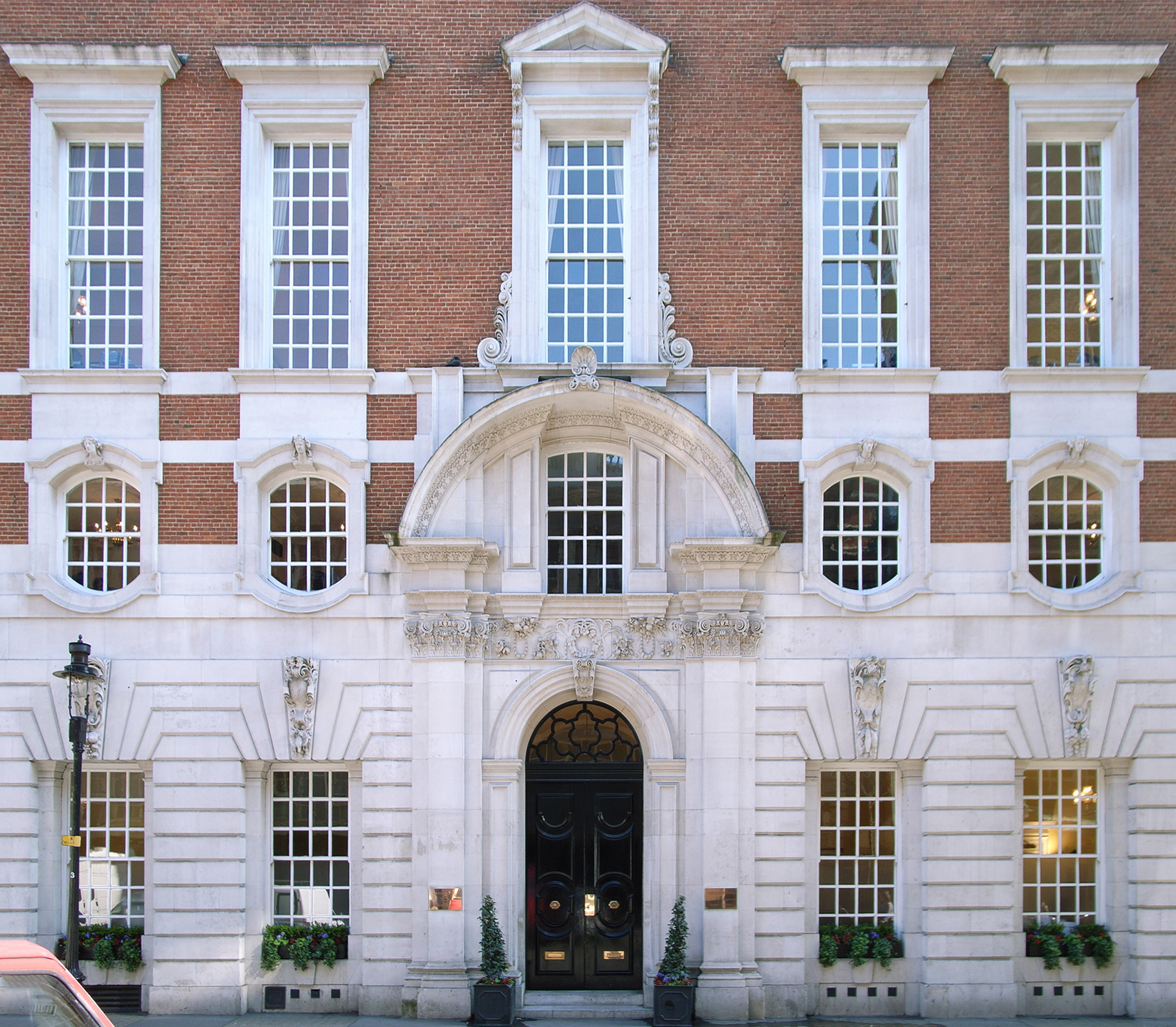 (Former) Country Life Offices (1904), on Tavistock St, London WC2, by Edwin Lutyens